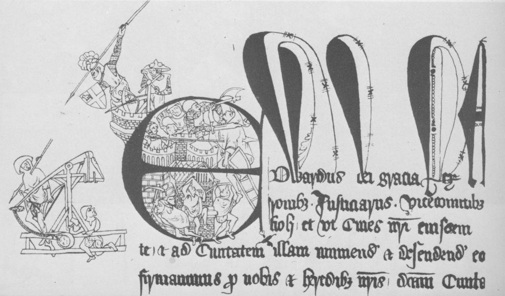 The initial from a royal charter received by Carlisle. Andrew Harclay, 1st Earl of Carlisle, identifiable by the coat of arms on his shield, is seen in the tower, throwing spears at the soldiers below. This comemmorates Harclay's successfully resisting the siege of Carlisle Castle by Robert I of Scotland in July and August 1315.